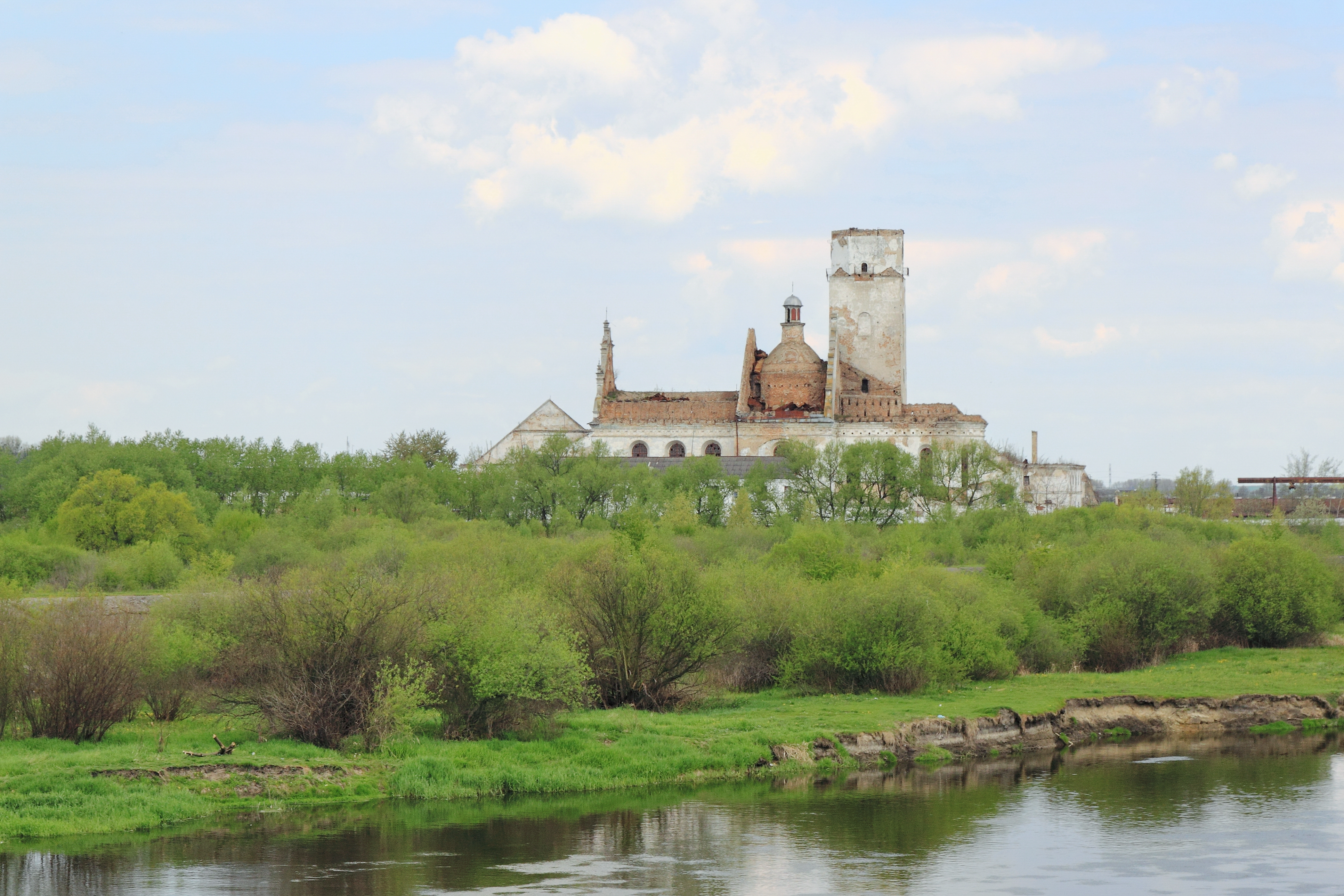 Bernardine Monastery. Sokal, Lviv Oblast, Ukraine.